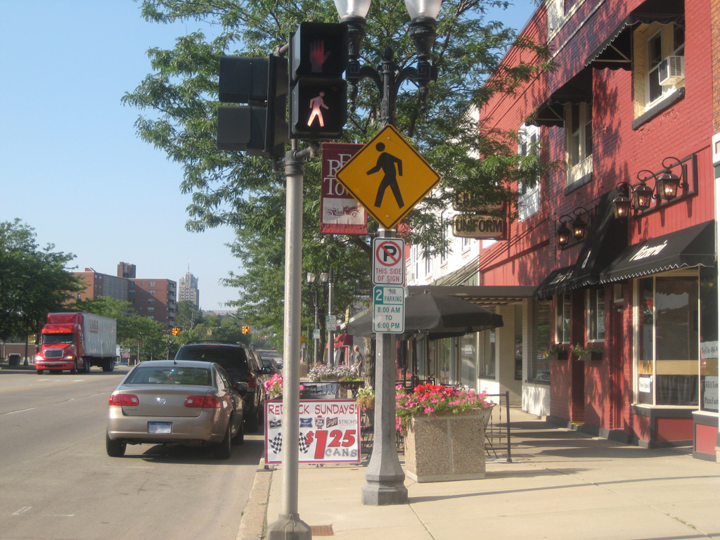 REO Town district in Lansing, Michigan, located south of downtown. View along Washington Avenue facing north.